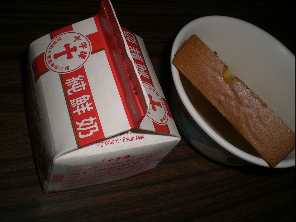 Trappist Dairy Fresh Milk from Hong Kong 粵語: 十字牌牛奶 - 屋仔裝